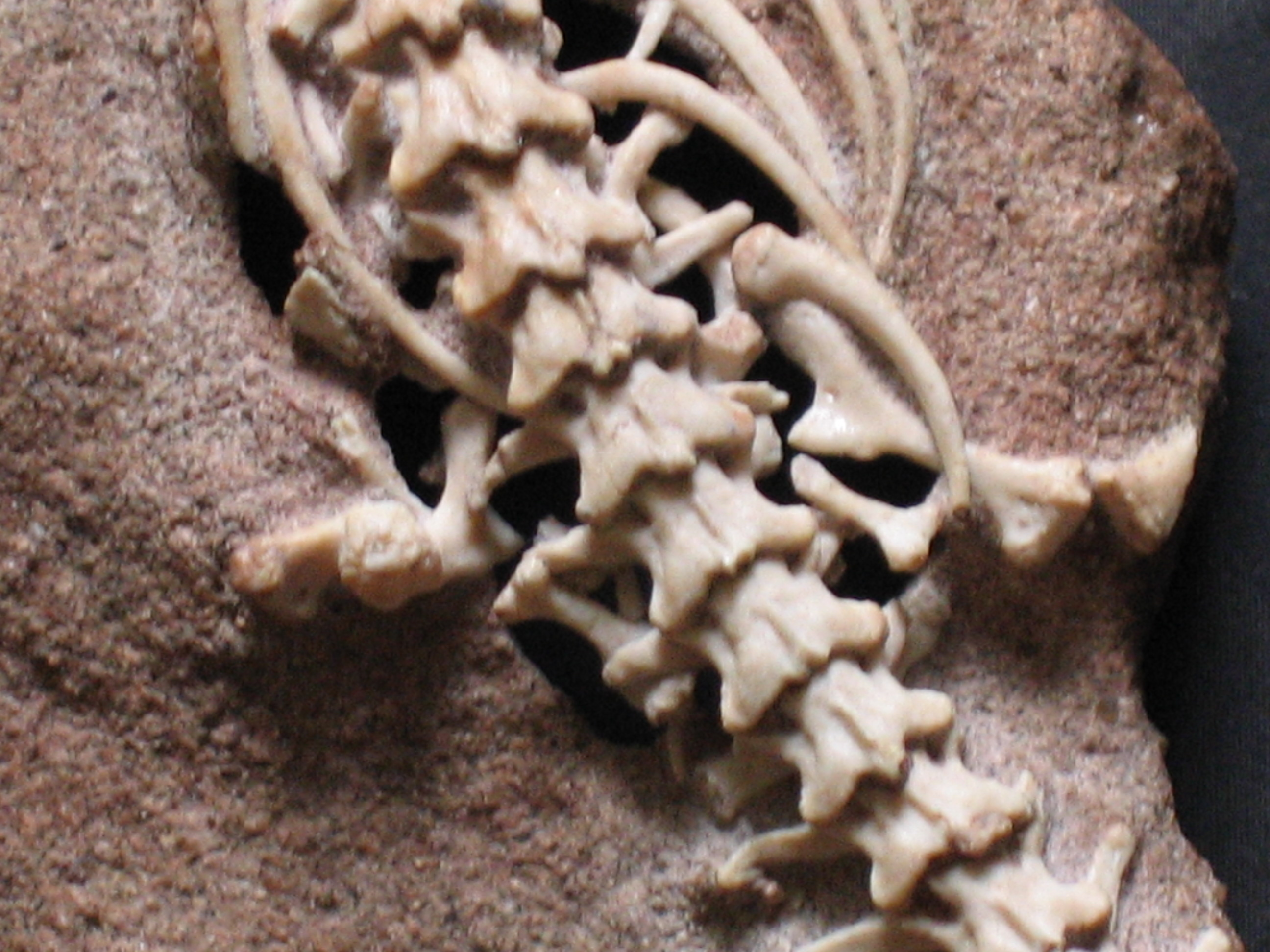 Sacral region of the holotype of the “legged snake” Najash rionegrina (specimen no.: Museo Paleontológico ‘Carlos Ameghino’ 390–398) from the early Late Cretaceous (Cenomanian/Turonian) of Argentina with both femora (and the proximal head of the right tibia) clearly visible. The width of this detail shot is about 2 cm.